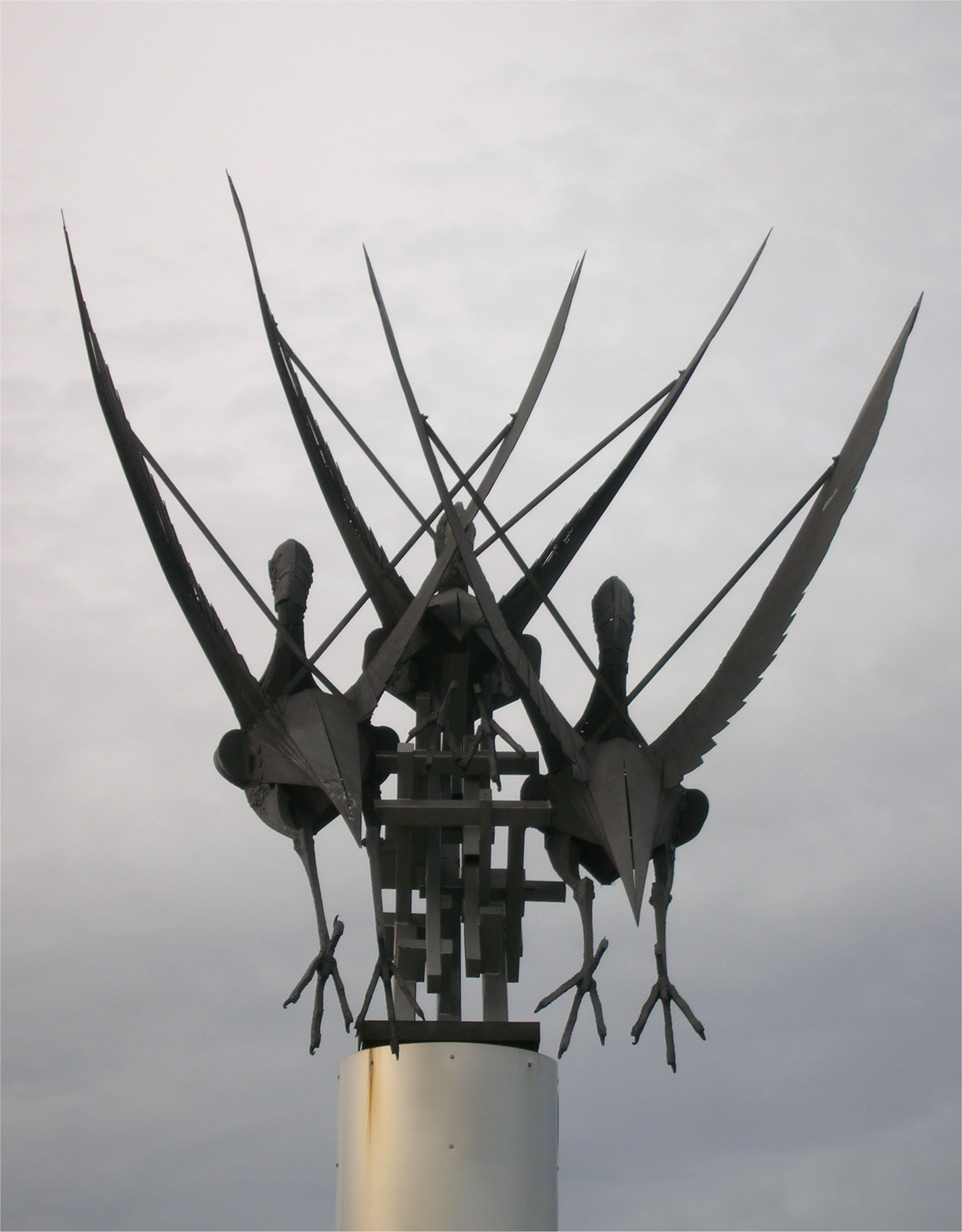 Take Off - sculpture by Walenty Pytel on roundabout on approach road to Birmingham International Airport (UK). Photographed by me 22 October 2006. Oosoom